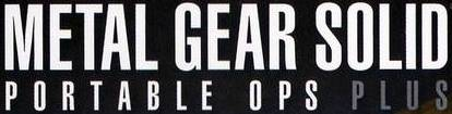 Logo from the Konami's Metal Gear Solid: Portable Ops Plus videogame (North American box art).